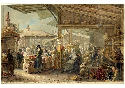 A print of Old Covent Garden Market, 1825 by George the Elder Scharf - George Scharf